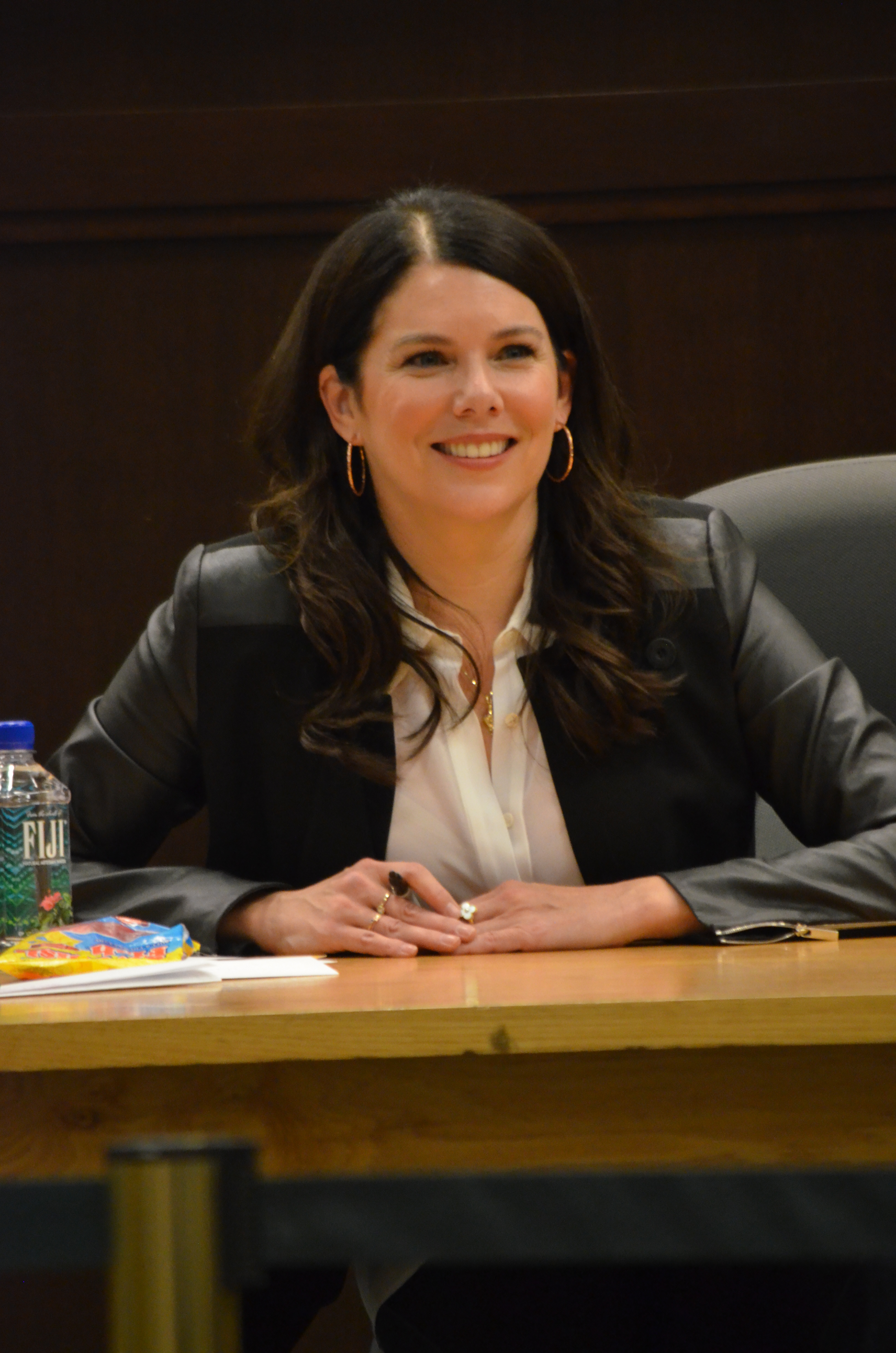 Actress and author Lauren Graham at a book signing in Los Angeles.